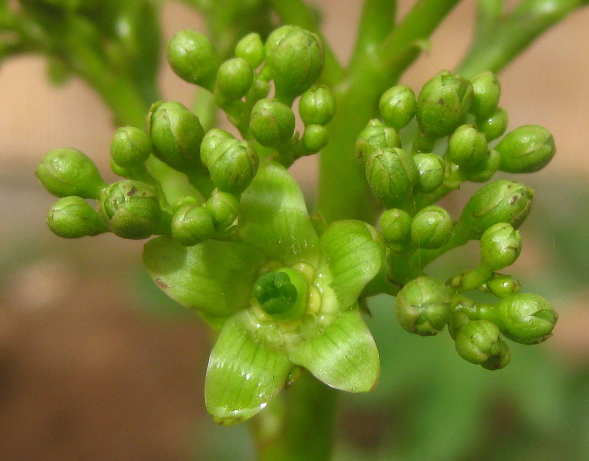 Only 136 days after sowing (4,5 months) the first 5 female flowers open. This is much quicker than in Jatropha curcas (9 or more months from seed to first flower). Flowers intermediate in diameter compared to 2 parents, with some pubescence on the inside of the petals (like Jatropha curcas, but less). Female flowers open first, like in Jatropha scaposa. In Jatropha curcas male flowers open first.